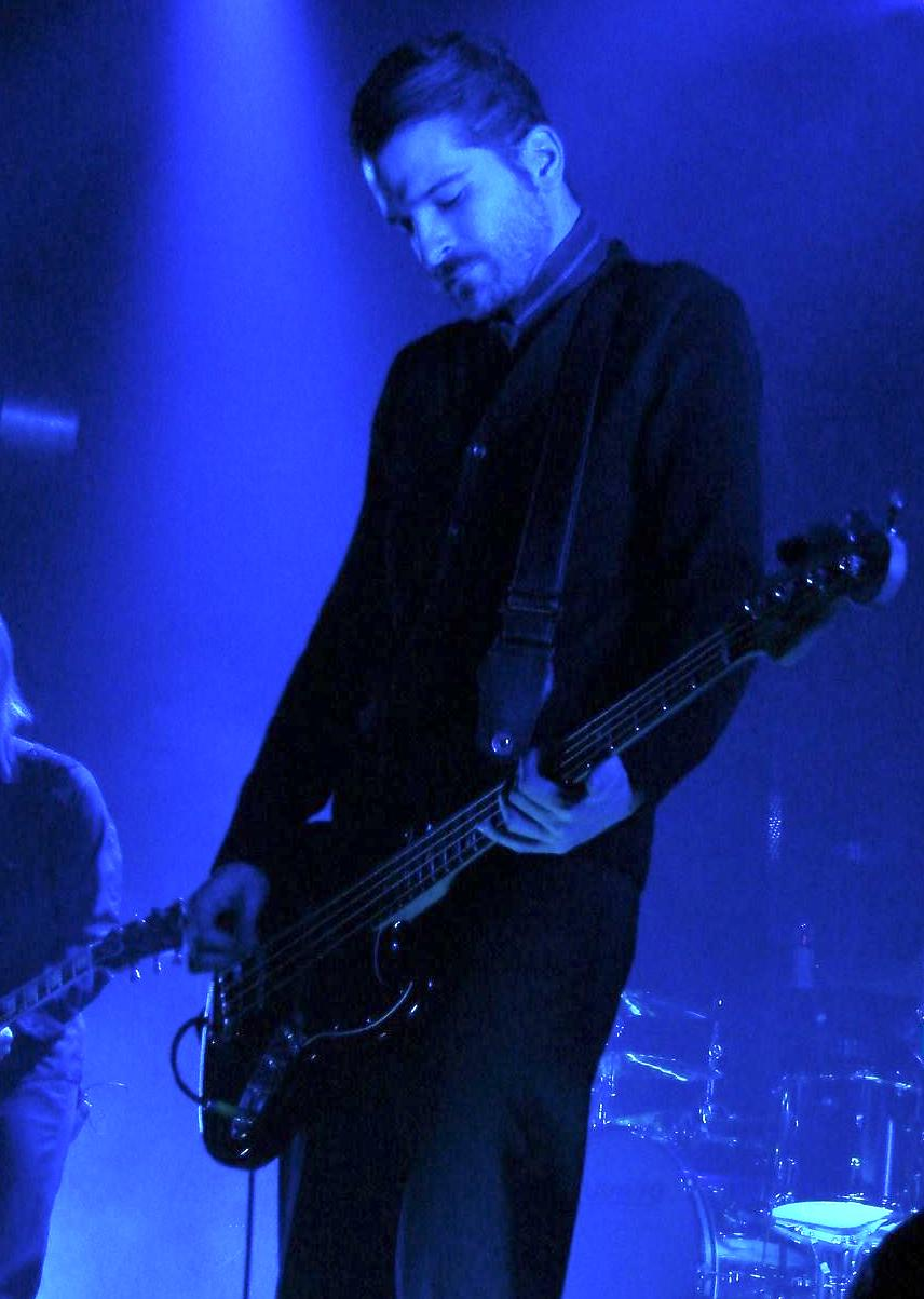 enough with the pro ones. this and the following ones were taken with my sony dsc-h5 from the first row:)